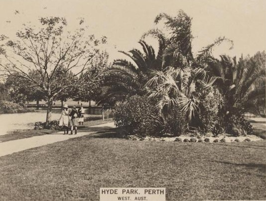 Hyde Park, Perth, Western Australia